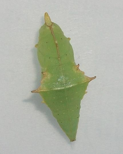 Dixeia pigea pupa from Amanzimtoti, South Africa.